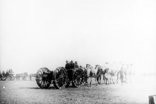 AWM caption : "North Africa: Egypt, North Egypt, Moascar. A team of camels stands ready to begin pulling a 4.5 inch howitzer across the desert near Moascar, Egypt. Note the wide sand tyres on the wheels of the wagon."